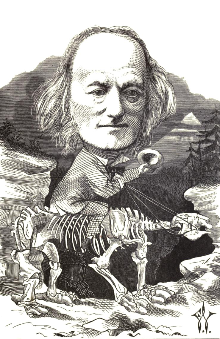 Richard Owen. Riding his hobby (Megatherium).from Cartoon portraits and biographical sketches of men of the day